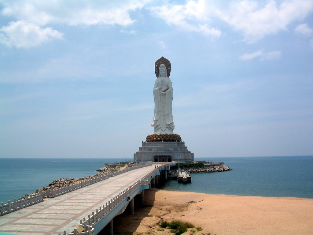 The 108-metre Sea Goddess of Mercy in the Nanshan Cultural Tourist Zone and the bridge leading to it. Further description originally from Flickr page: "It is taller than the much more famous, much more sensible, and much less sponsored Statue of Liberty. While the lady on Ellis Island (sic) was provided as a gift by the French monarchy, (sic) this Buddhist statue was funded by Chinese companies, looking for karma or lucre, I'm not sure which. For a religious icon, it is also remarkable young, having been built only in the last five years. Welcome to China! "The statue actually looks the same from three different angles, giving it a rotational symmetry of sorts. But I didn't know this at the time I took the photograph. So, if you like, pretend you don't know it either."